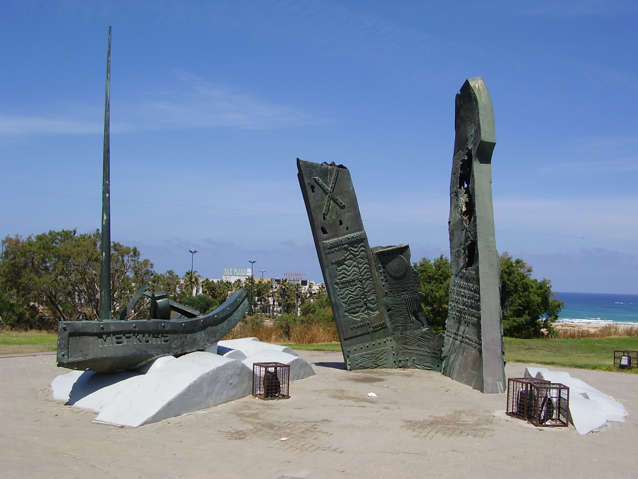 monumement to the immigrant ships, Struma avd Mefkure in Ashdod, Israel